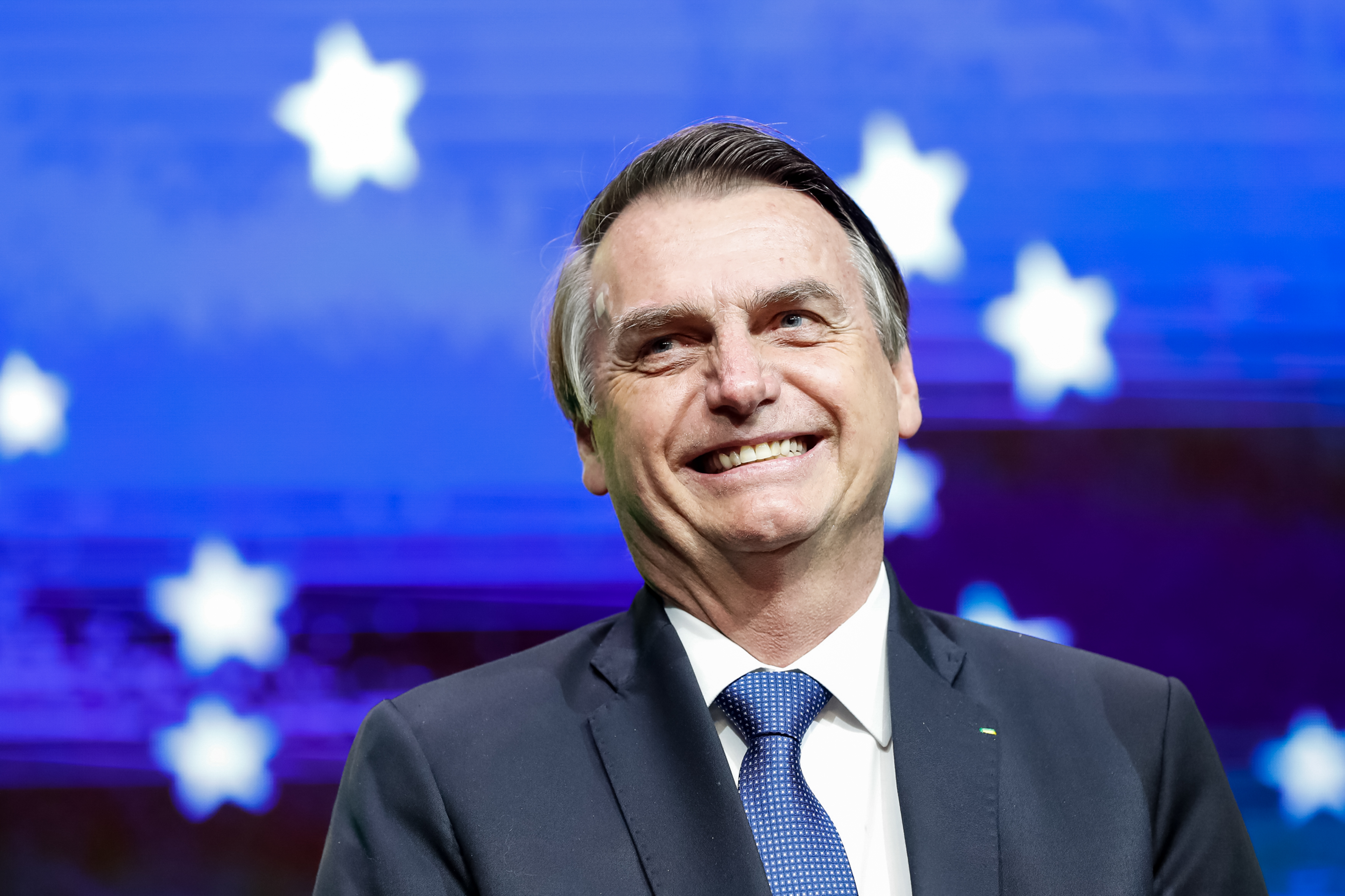 (São Paulo - SP, 11/06/2019) Presidente da República, Jair Bolsonaro durante Encontro com Lideranças Empresariais e Cerimônia de Entrega da "Ordem do Mérito Industrial São Paulo" . Foto: Alan Santos/PR